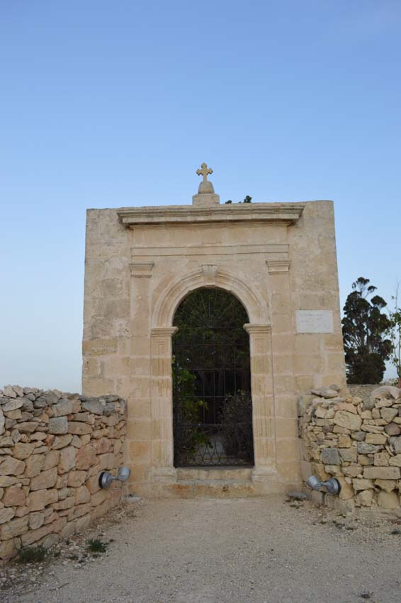 Ħal-Millieri